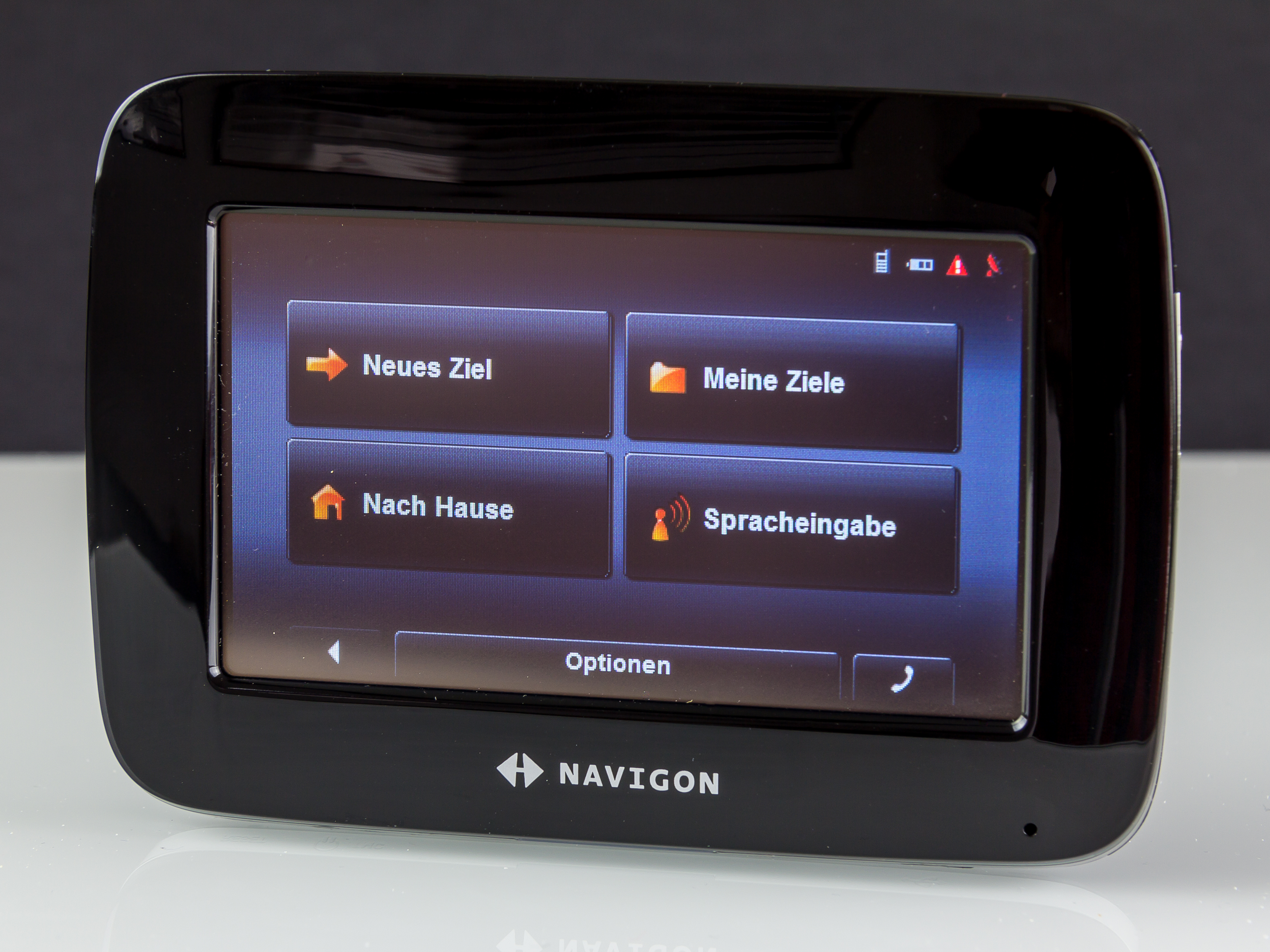 Automotive navigation system Navigon NVG7100, German user interface